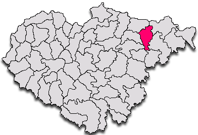 Map Salaj County Romania